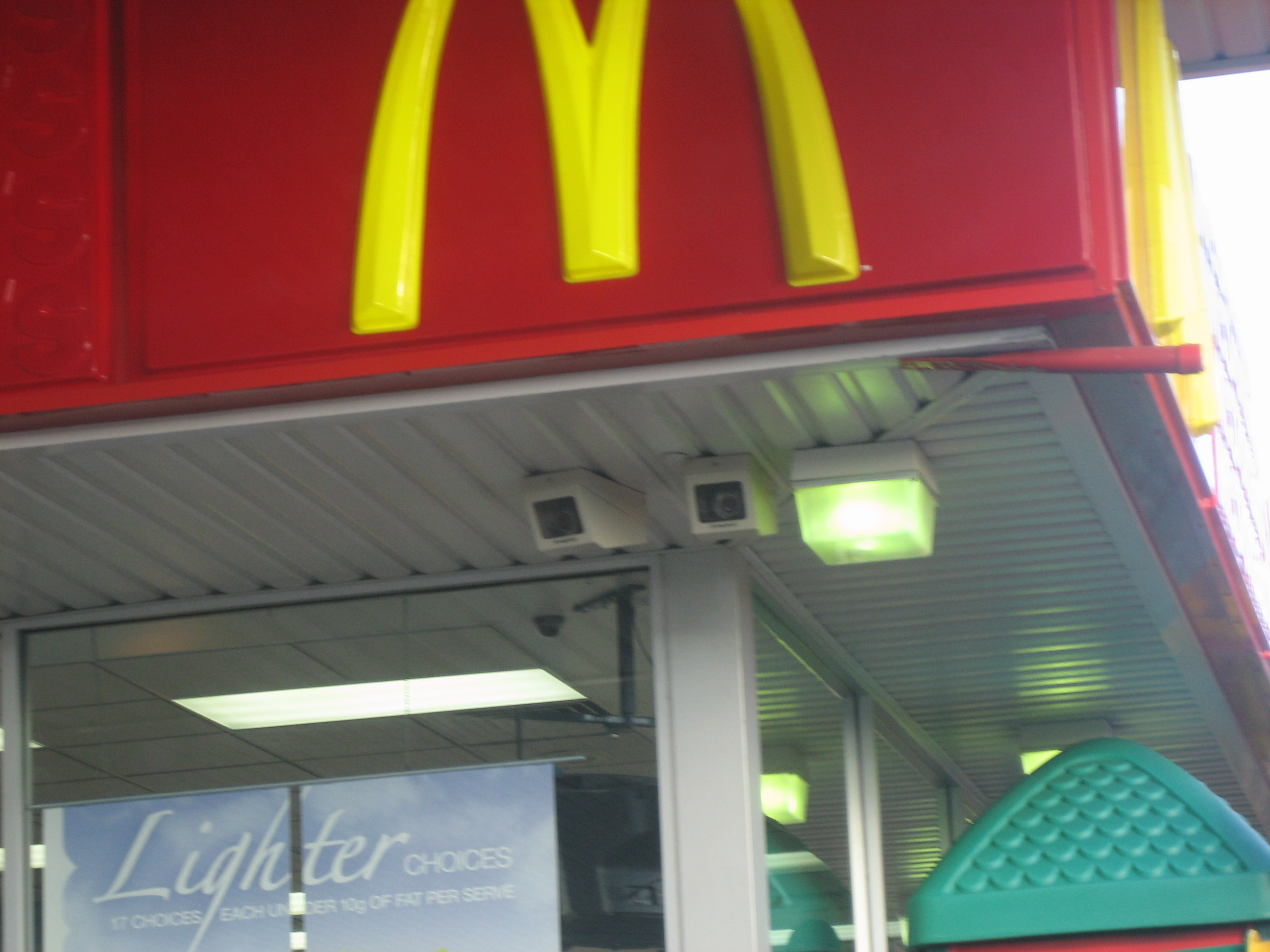 David Fairbrother. A security camera outside a McDonalds highway restaurant.